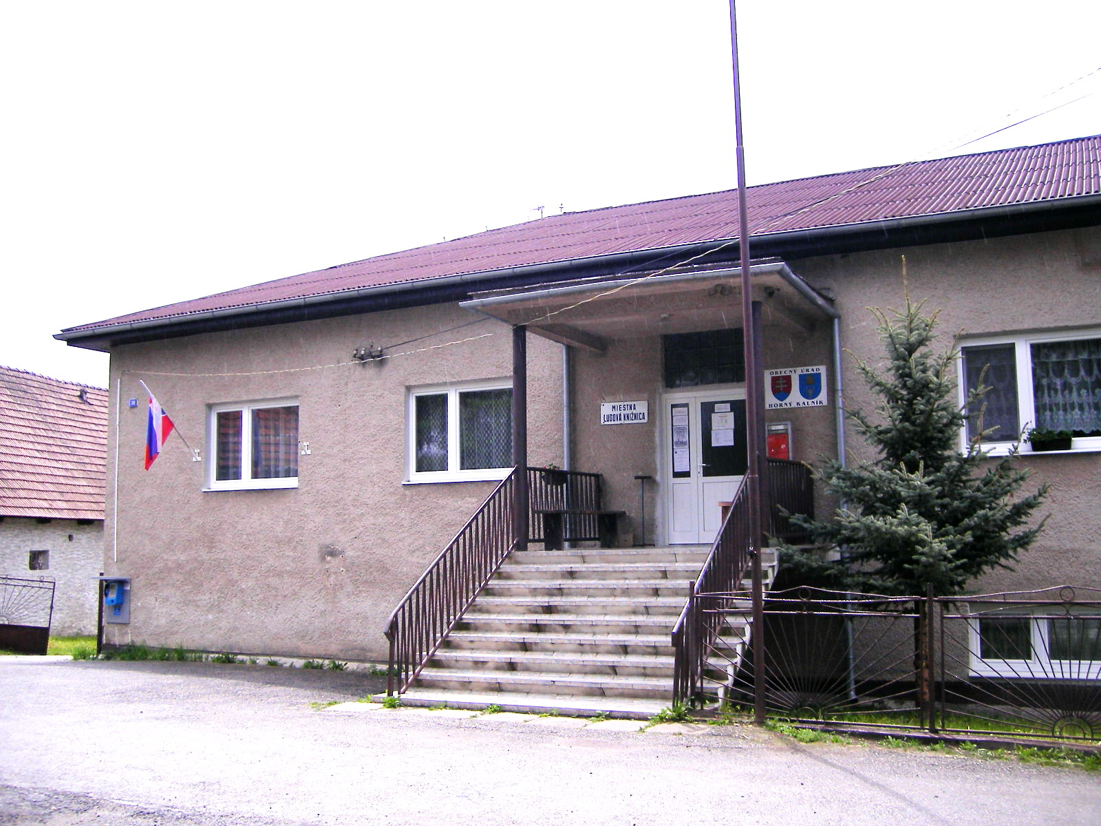 Horný Kalník - town hall